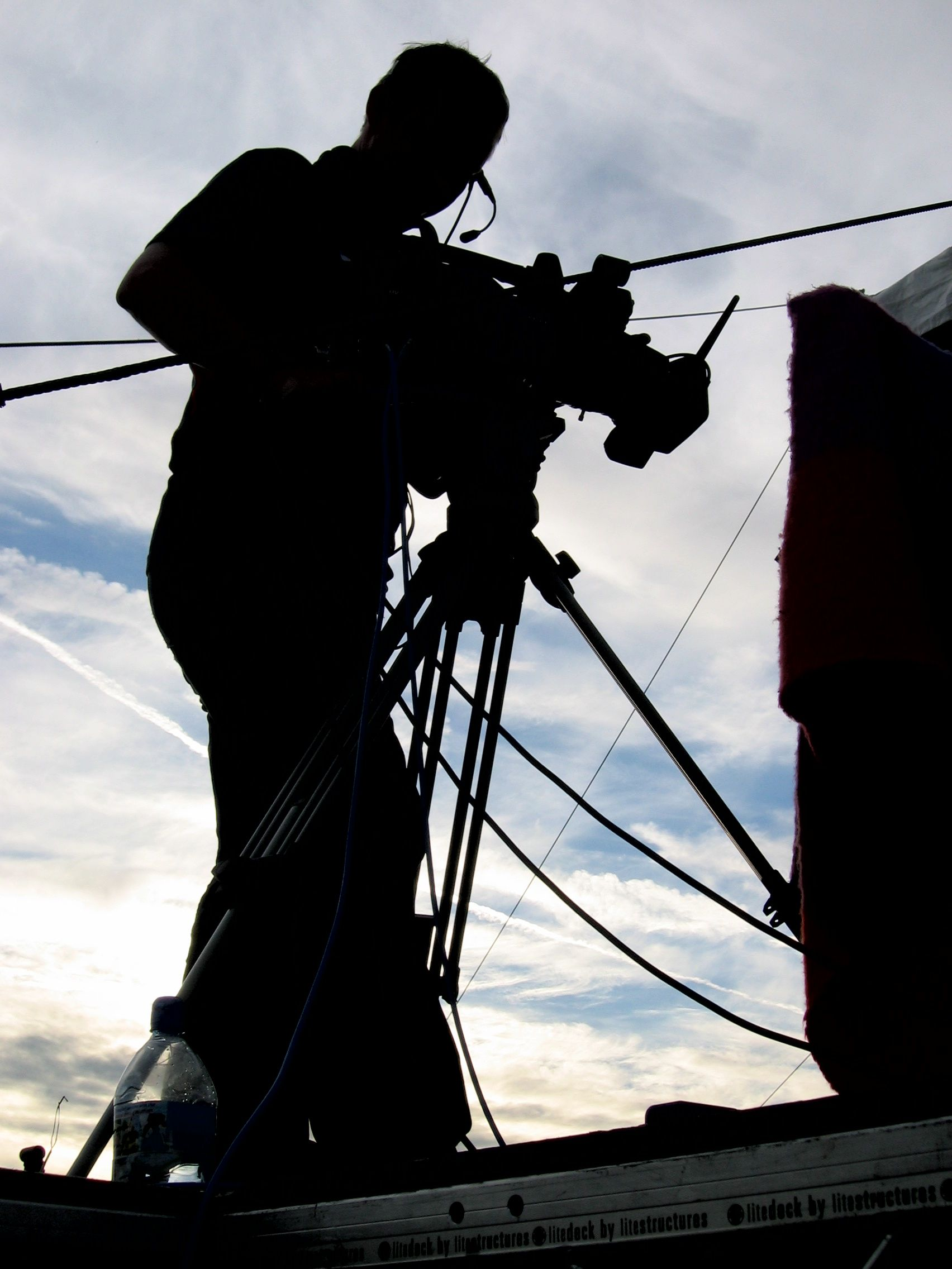 This photograph shows a man operating a professional camera on a tripod.